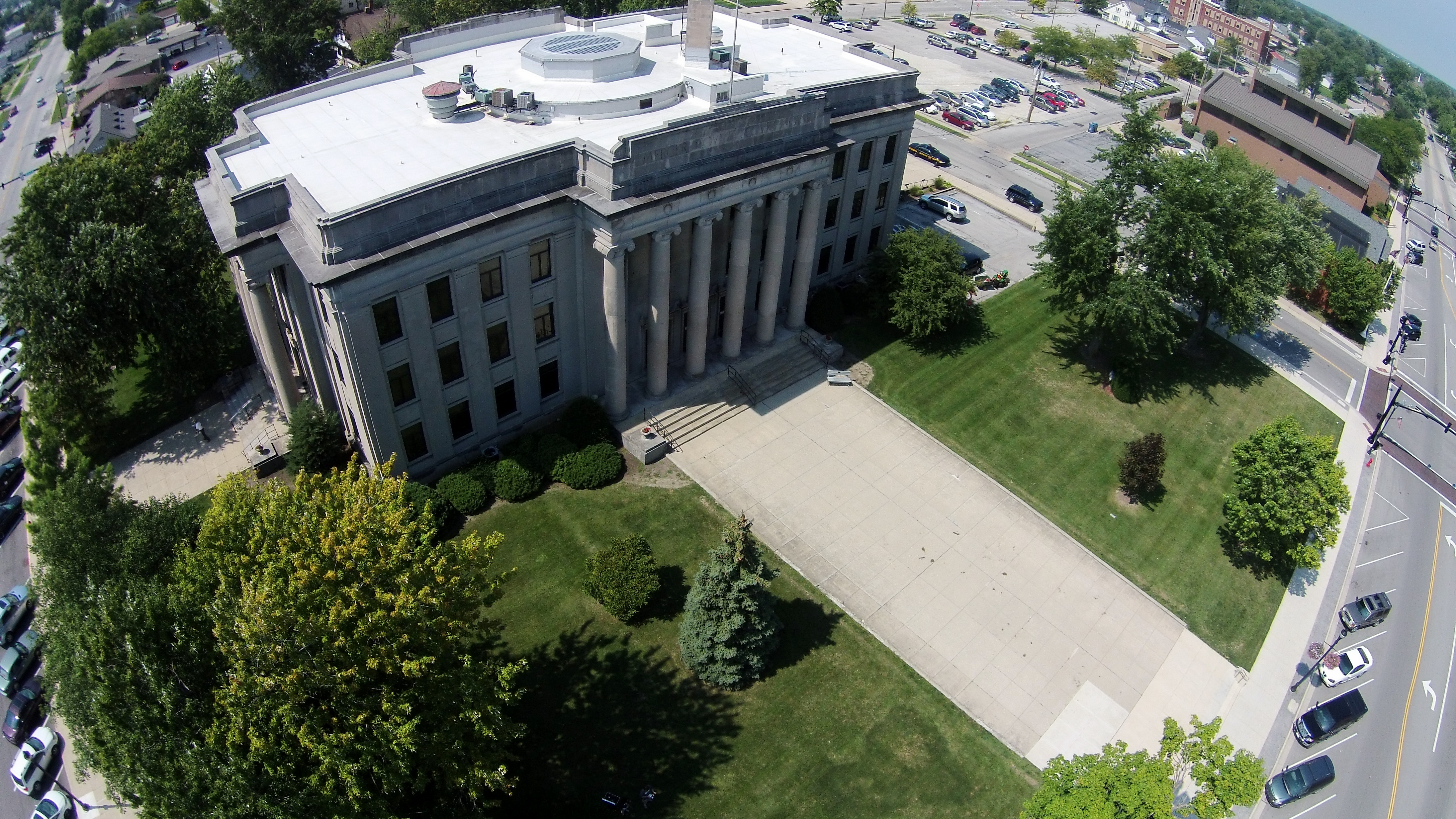 Aerial picture, taken by drone, with permission by the Commissioner's Office.